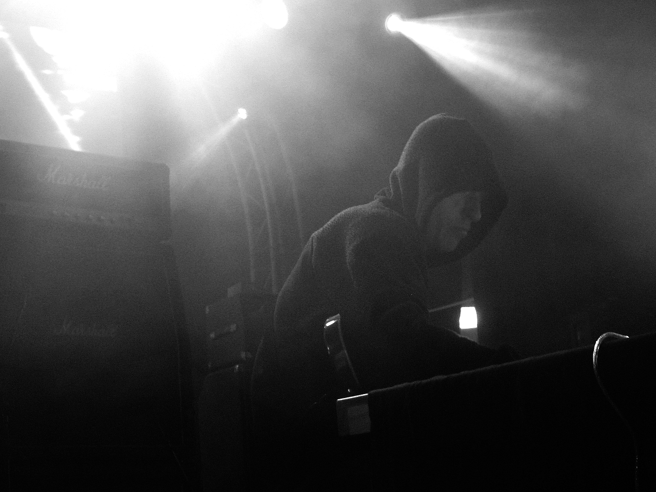 Justin K Broadrick performing as Final, in Roadburn 2012, Holland